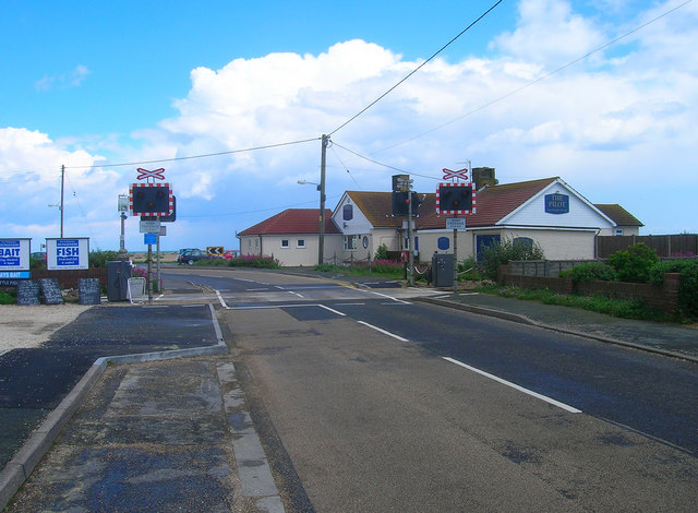 The Pilot Inn There has been an inn on this site since 1633 when a group of wreckers lured a Spanish vessel, the Alfresia, onto the shingle murdered the crew and looted the cargo before building the inn from the wreckage of the ship. As the name suggests ships would take on pilots from this point to help navigate through the Straits of Dover. The level crossing is for the Romney, Hythe and Dymchurch Railway which had its original southern terminus here before the extension to Dungeness was completed. The station survived the new extension though suffered after the war when the track was reduced to a single line and became an unstaffed halt until its closure in 1977.